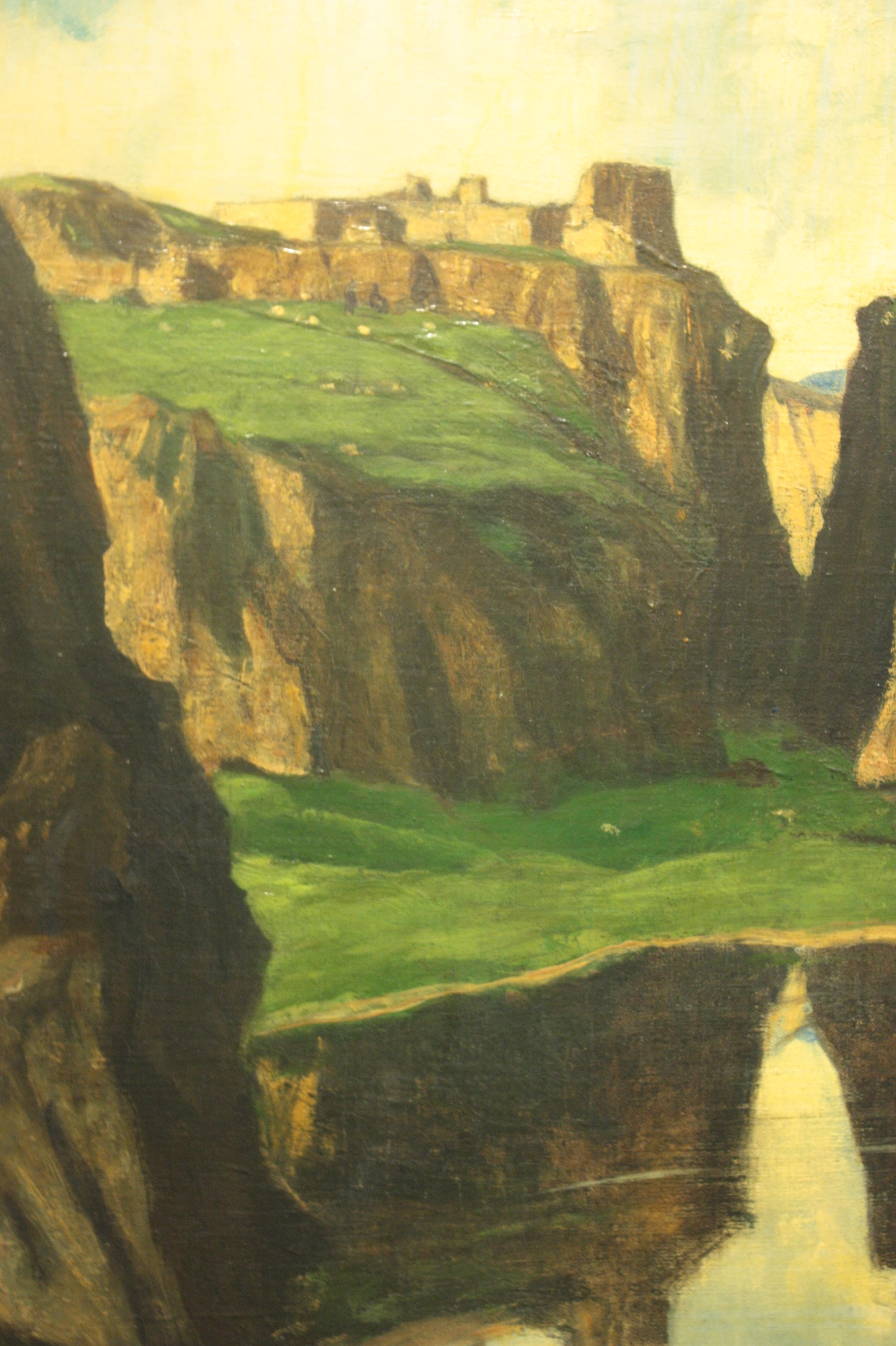 Rocks and Ruins by David Young Cameron 1913